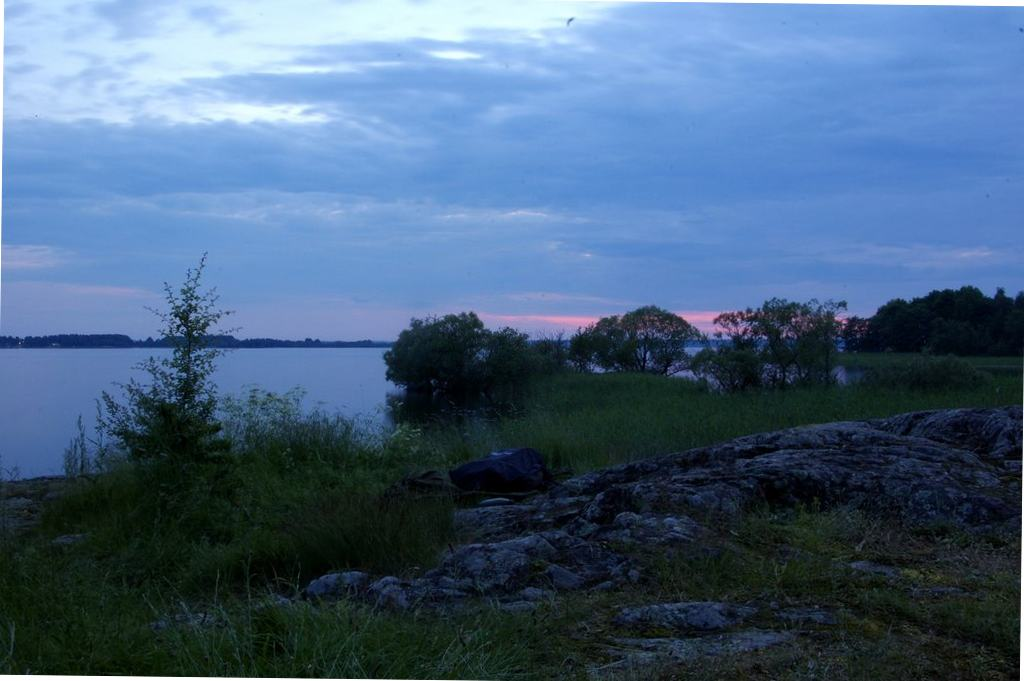 Roxen.